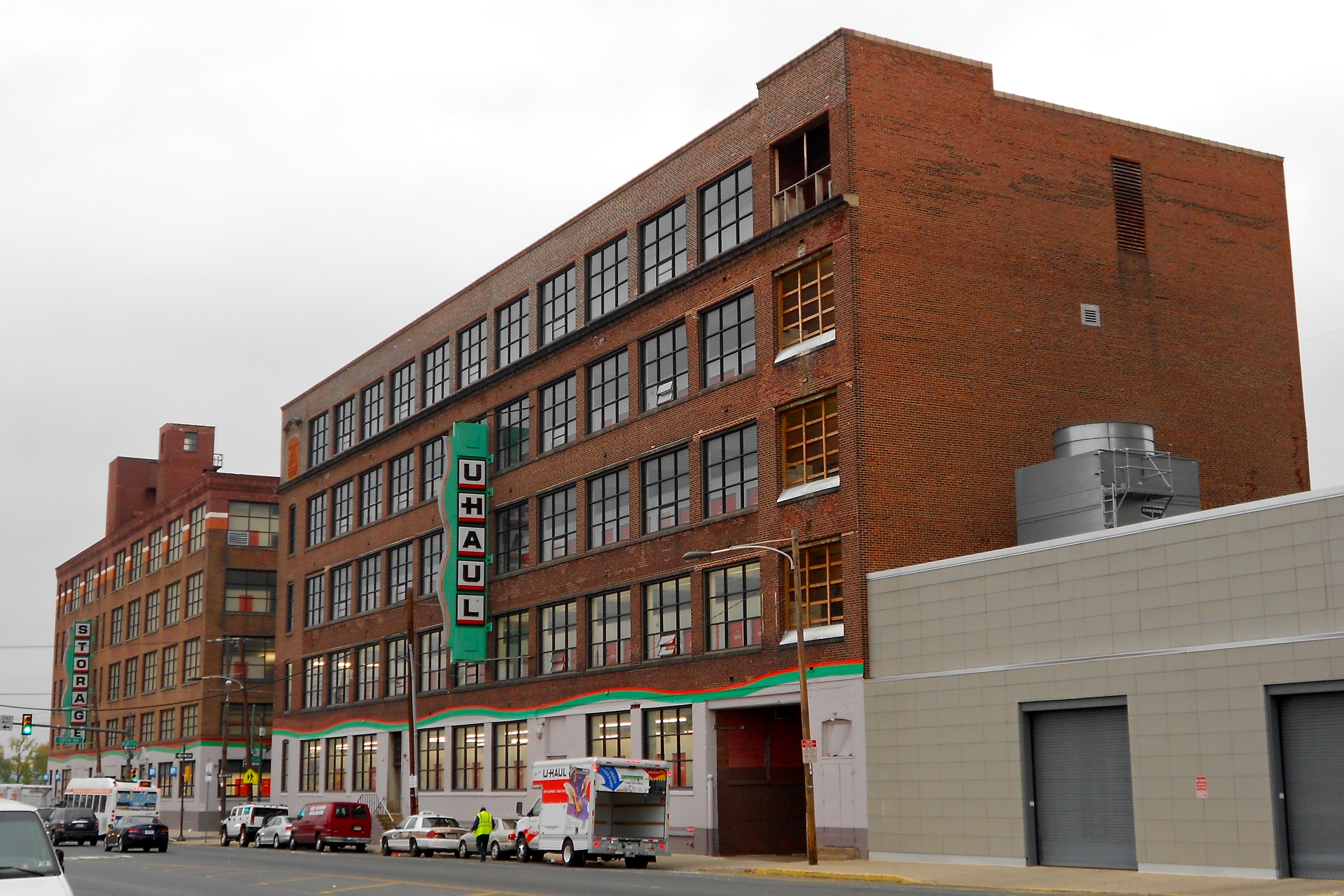 Building in Washington Avenue Historic District on the NRHP since September 7, 1984. The historic district consisted of 8 buildings, roughly bounded by Carpenter, Washington, 10th, and Broad Streets, in the Hawthorne neighborhood of south Philadelphia. These are 1135 Washington, formerly the American Cigar Company, now a trunk rental facility and 1201 Washington, now a self-storage facility.